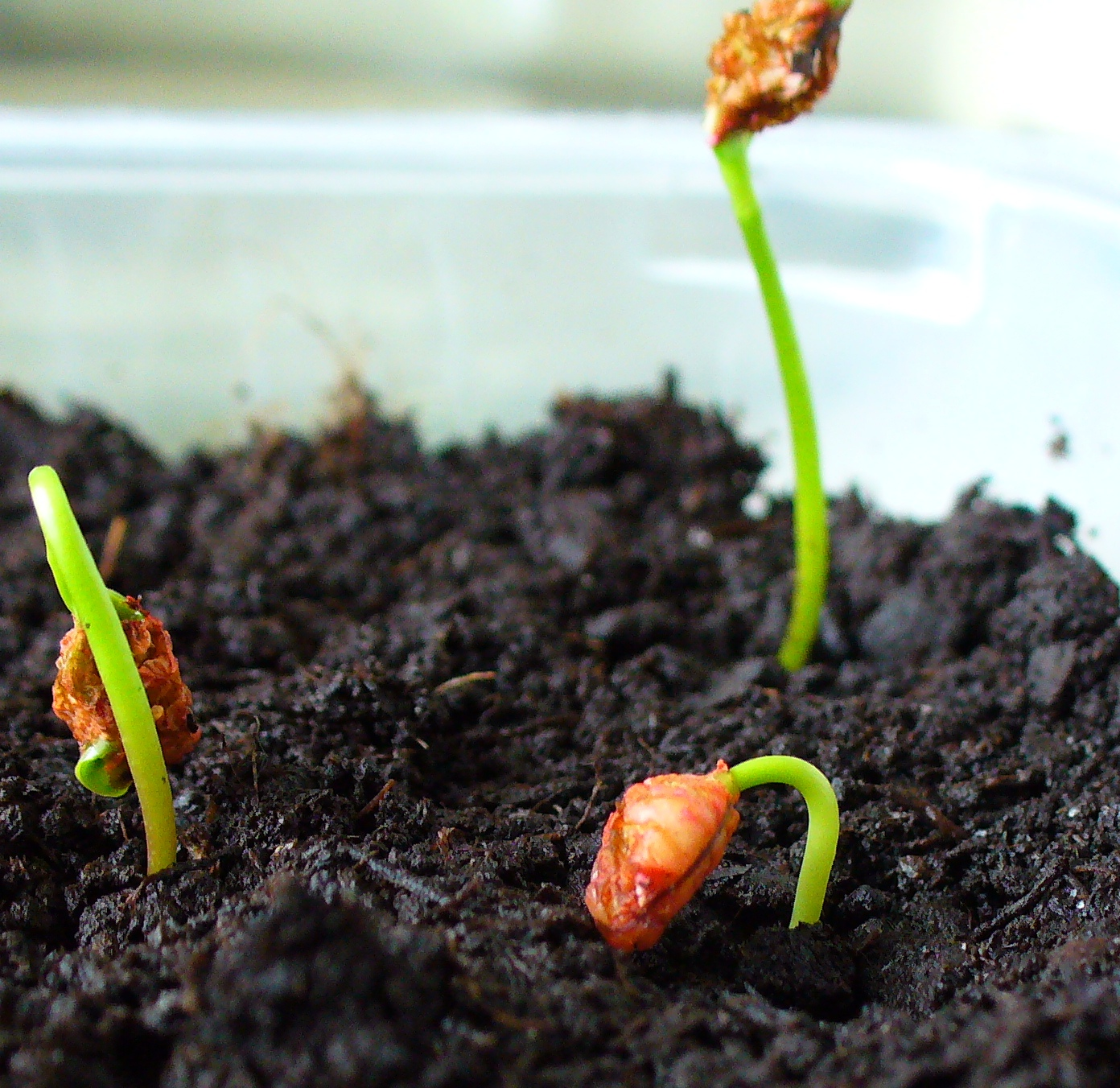 Hedera helix (L.) seedlings